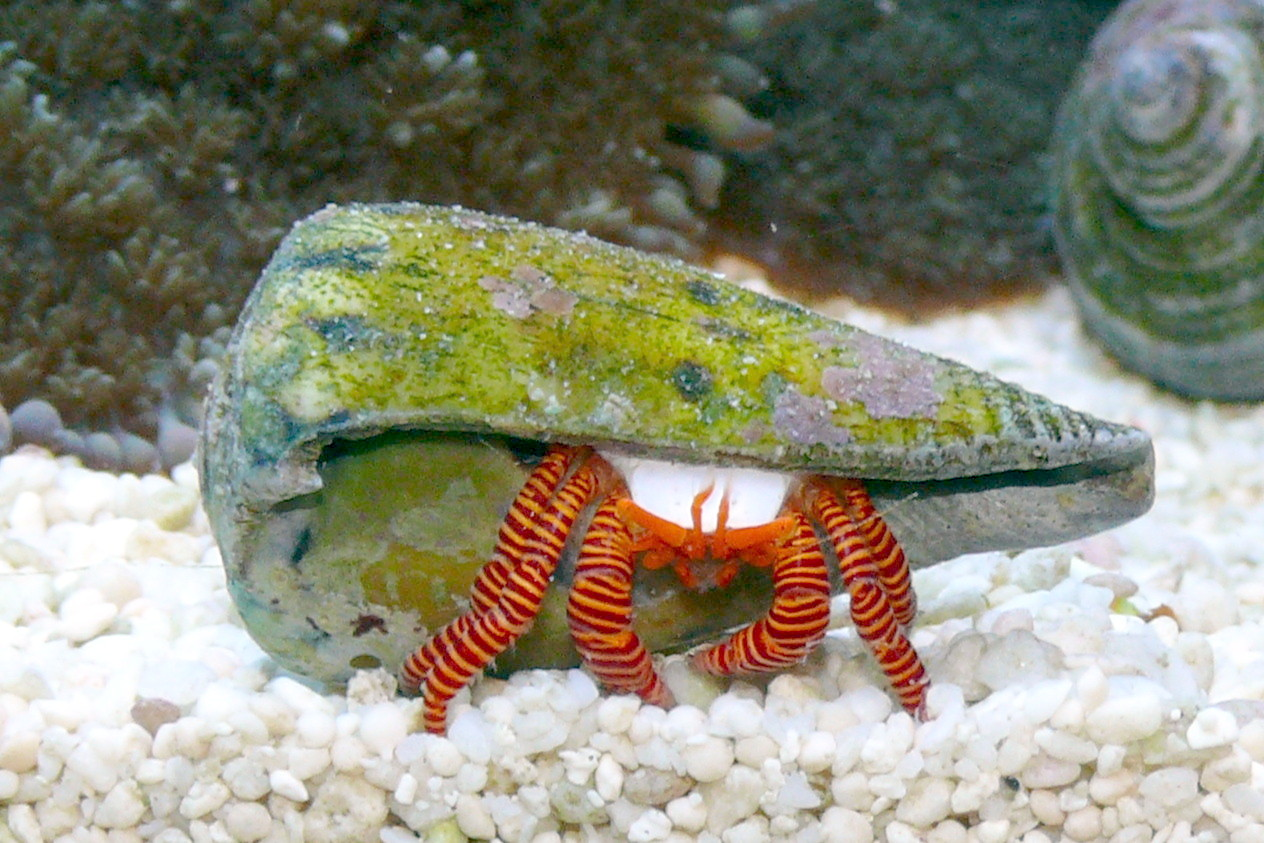 Ciliopagurus strigatus (Trizopagurus strigatus), a hermit crab in a Conus sp. shell.